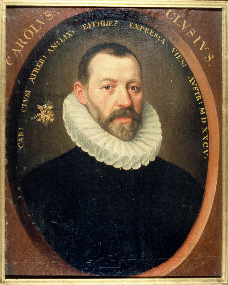 This portrait is the only known painted portrait of Clusius. It was made in 1585 when Clusius was in Vienna. On the left the coat of arms of Clusius is depicted. (Icones Leidenses 19)